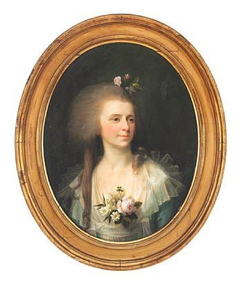 Portrait of the Danish ballet dancer Marie Christine Björn (1763-1837). Oil on canvas, 71 x 56 cm.